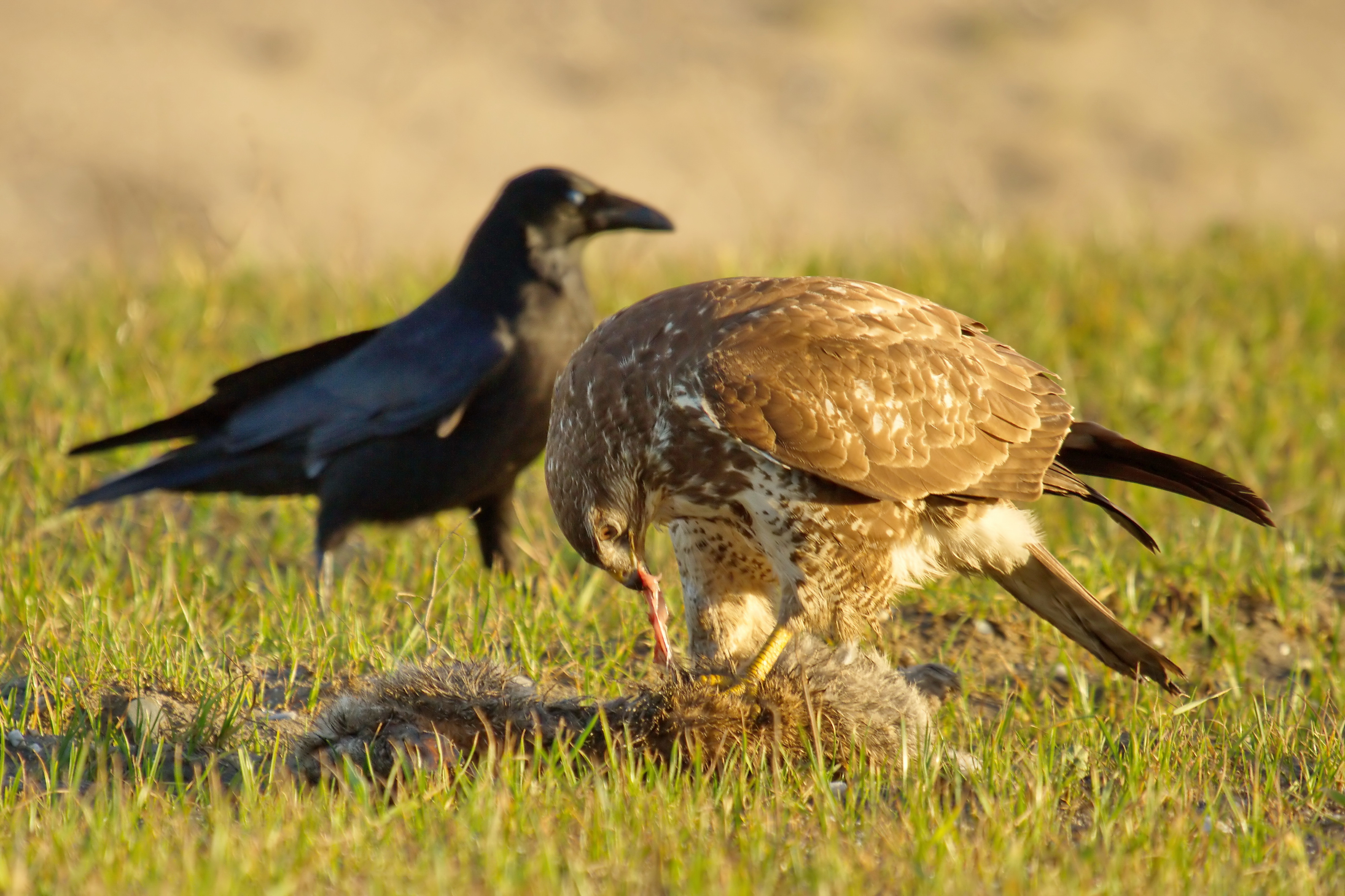 Common buzzard (Buteo buteo).